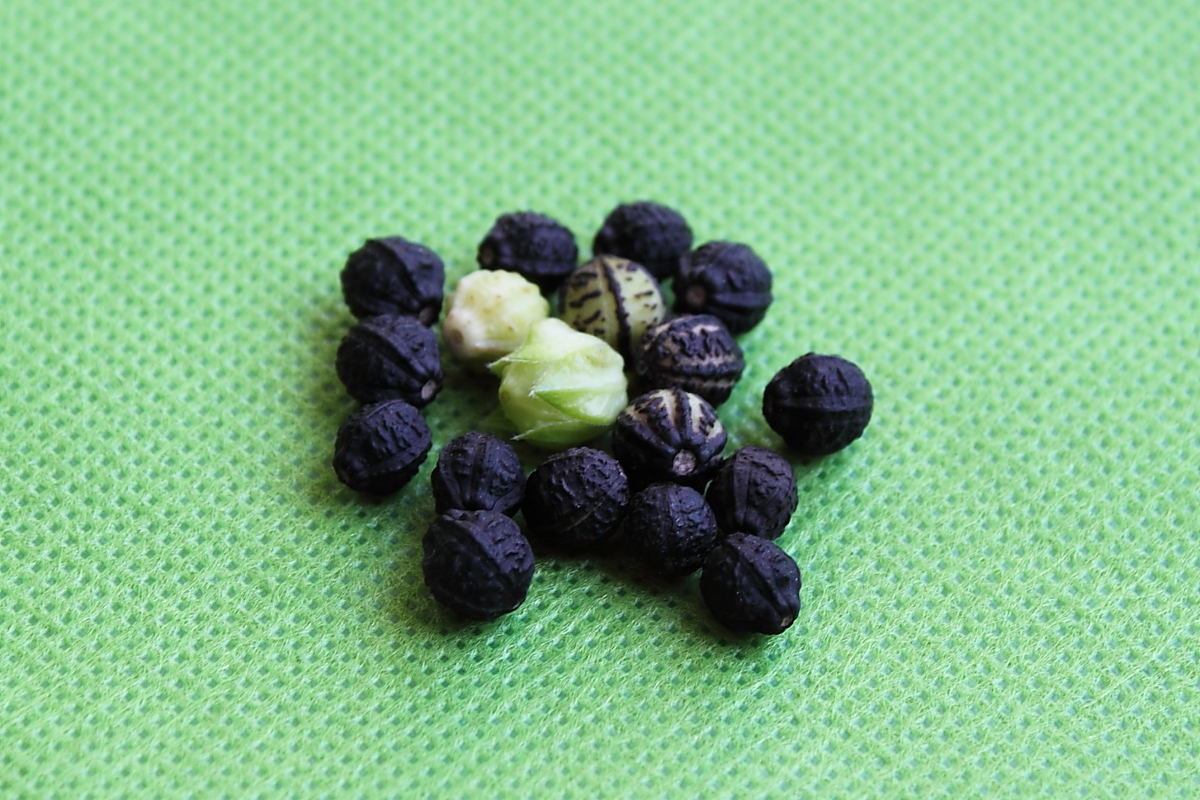 Seeds of mirabilis jalapa